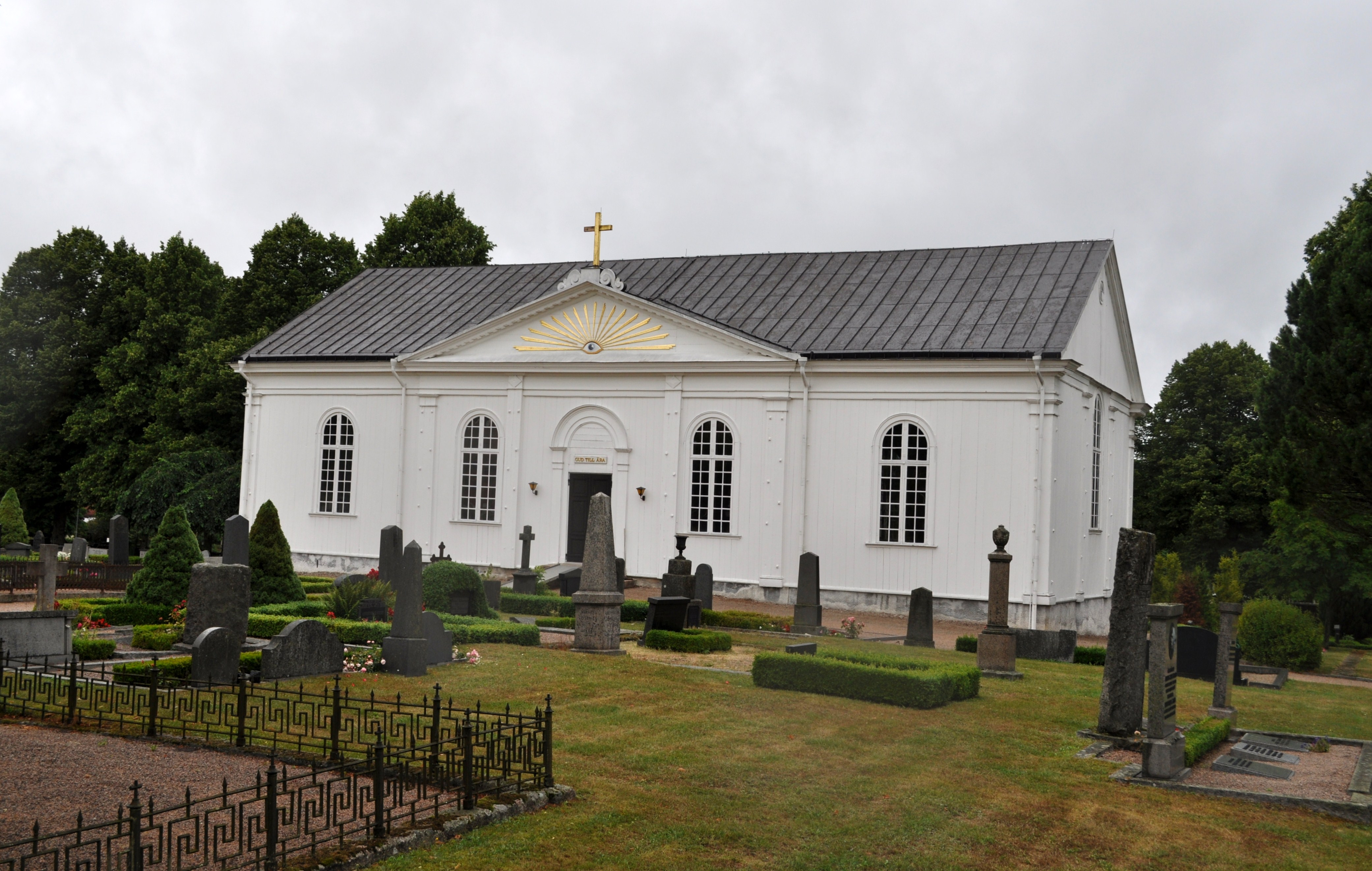 Eringsboda church - kyrka